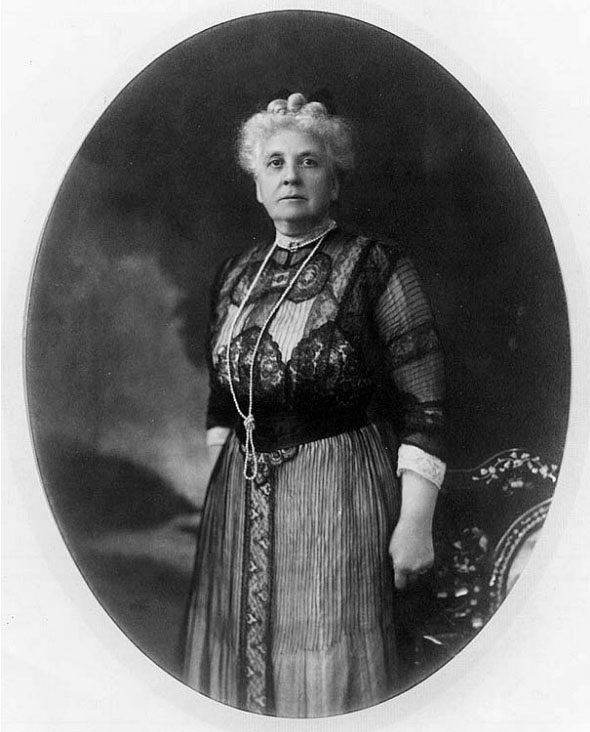 photographic portrait of Fanny Garrison Villard